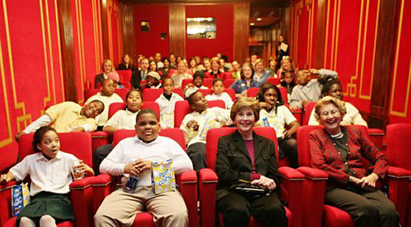 The Fist Lady Laura Bush and her mother, Jenna Welch, with Washington children in the remodeled theater of the White House East Wing.